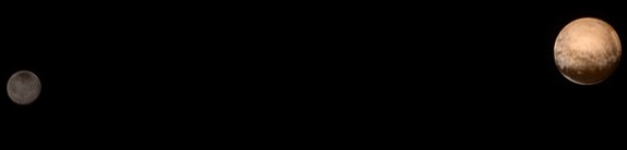 Pluto (on the right) and Charon (ont the left). Photo taken by the space probe New Horizon of NASA